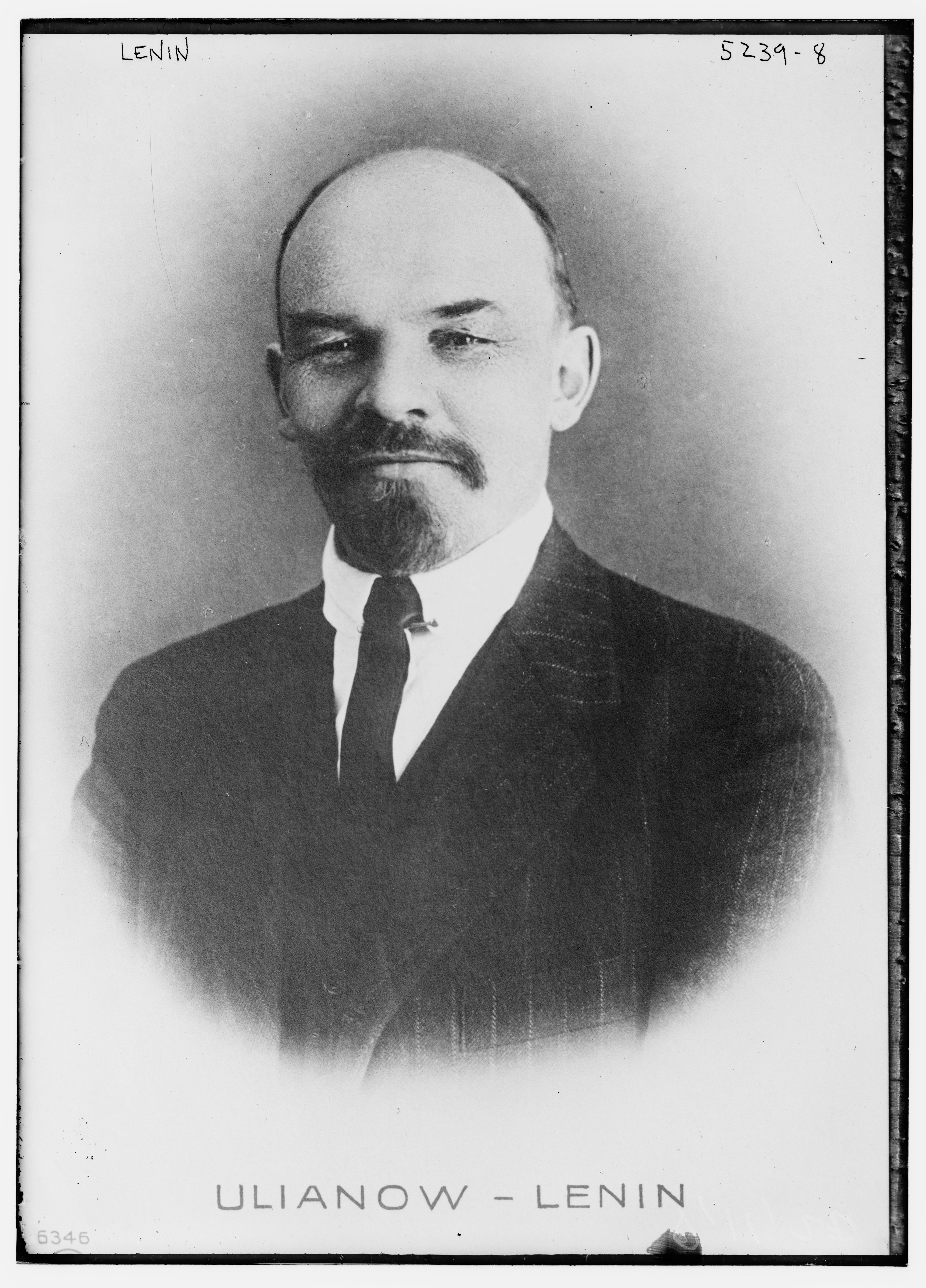 Title: Lenin Abstract/medium: 1 negative : glass ; 5 x 7 in. or smaller.